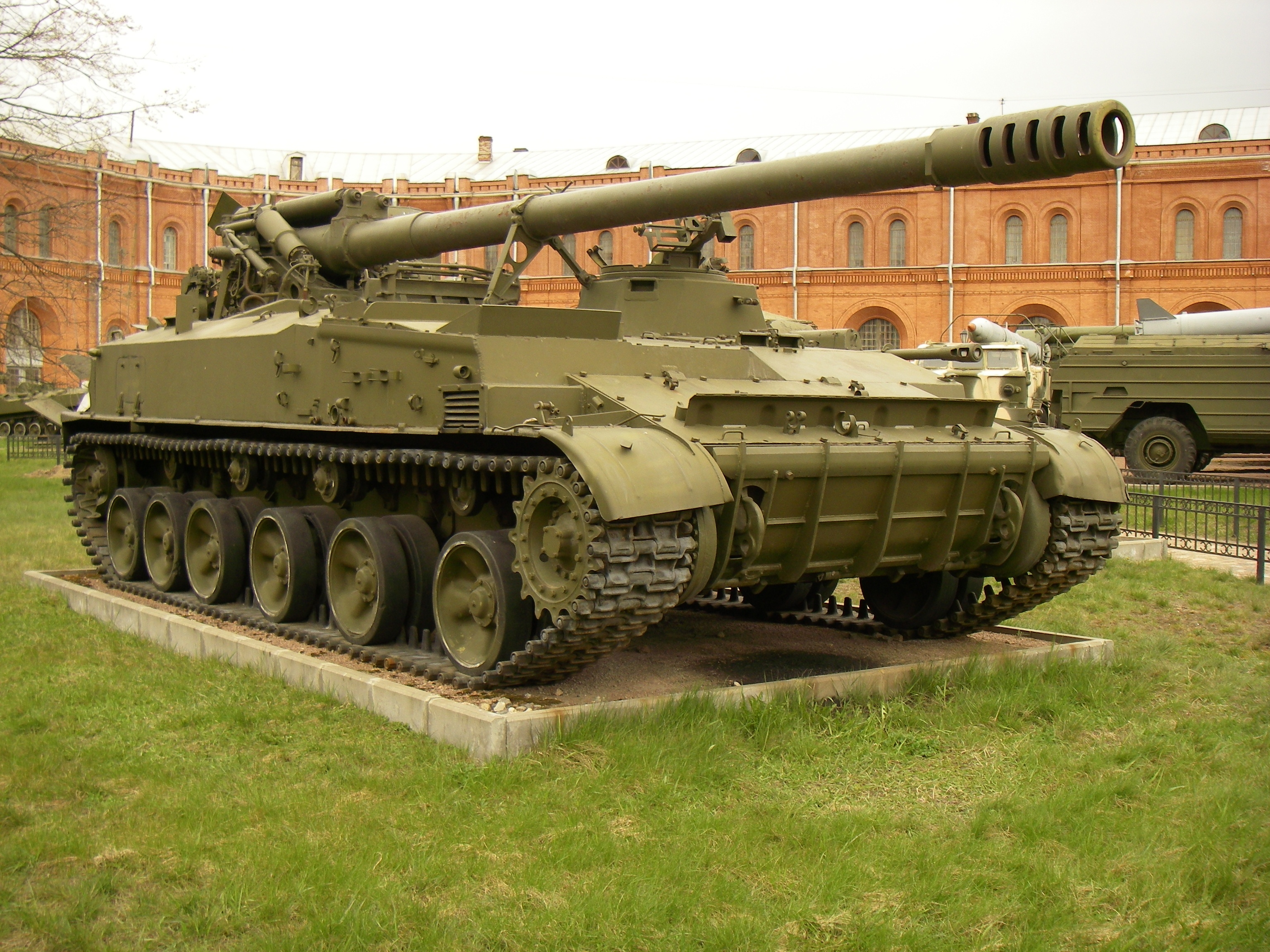 152-mm self-propelled howitzer 2S5 «Giatsint-S» in Saint-Petersburg Artillery museum